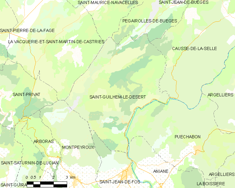 Map commune FR insee code 34261.png - Saint-Guilhem-le-Désert